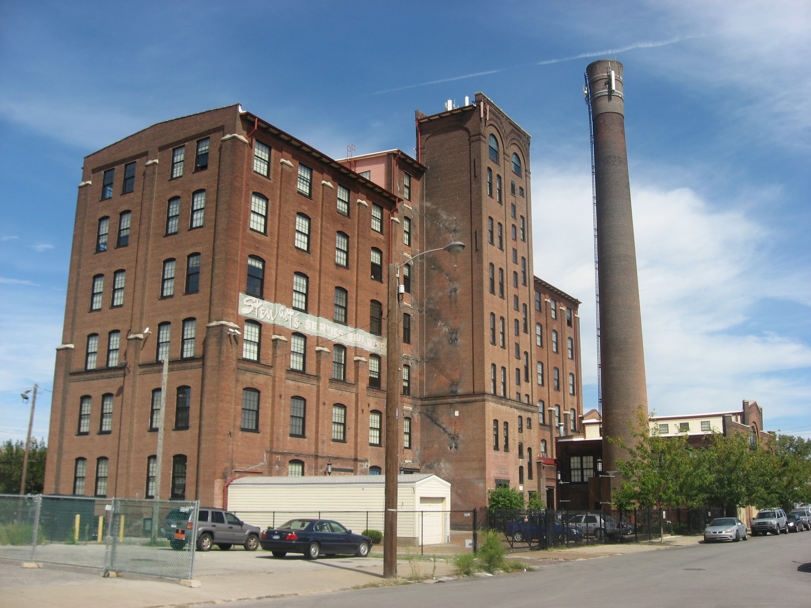 Front and western side of the J. Finzer and Brothers Company Building, located at 419 Finzer Street in Louisville, Kentucky, United States. Built in 1900, it is listed on the National Register of Historic Places.